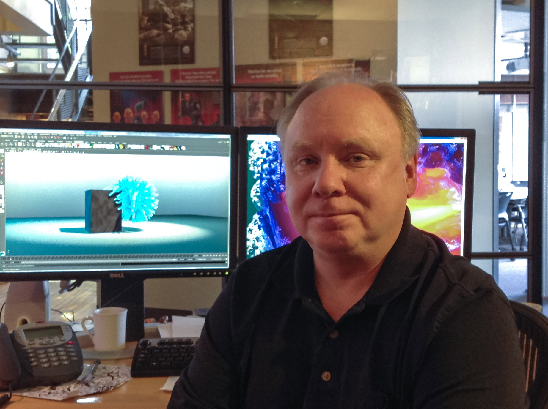 The canadian-american computer graphics pioneer Duncan Brinsmead in his office at Autodesk Inc., Toronto, 2013. Photographed by Maximilian Schönherr.